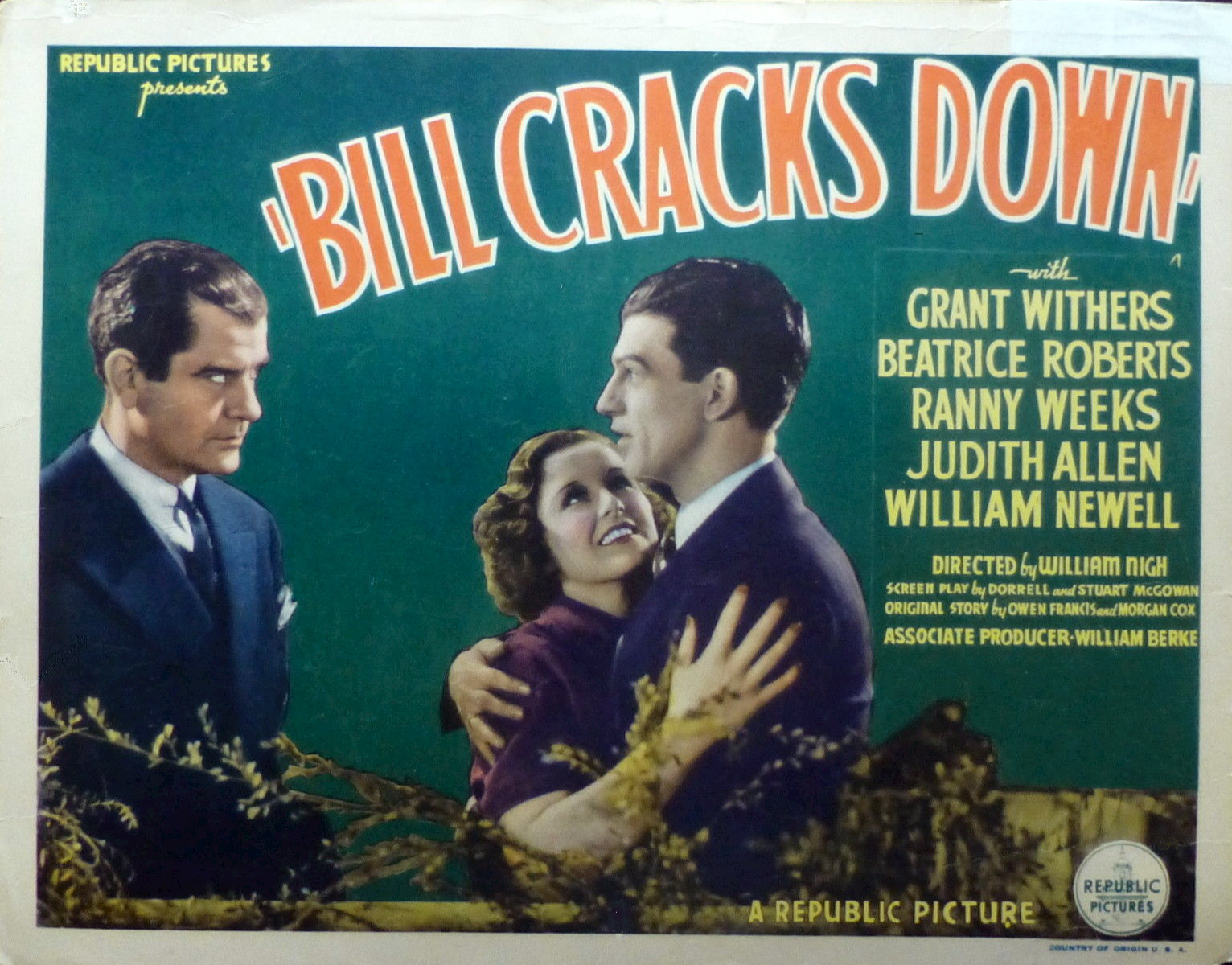 Lobby card for the American film Bill Cracks Down (1937) with Grant Withers, Beatrice Roberts, and Ranny Weeks. The item has no copyright markings on it as can be seen in the links above. At bottom right is Country of origin USA.